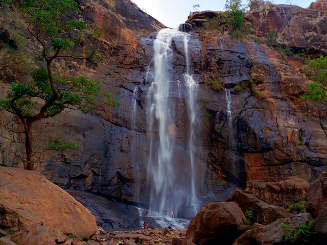 CTC members taking a bath at Kolli Malai Falls, Tamil Nadu after a long days trek.